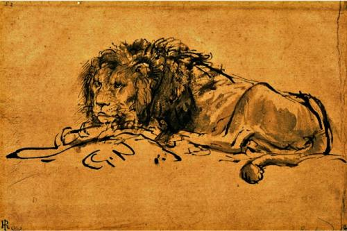 An extinct Cape Lion (Panthera leo melanochaitus) in a drawing of the Dutch artist Rembrandt Harmensz. van Rijn.